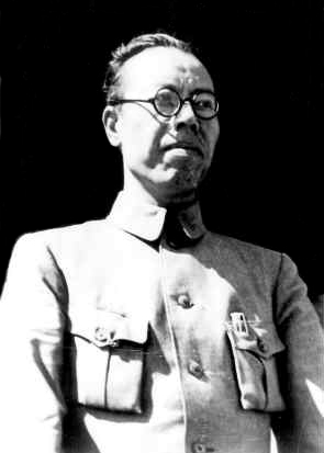 Li Lisan in 1946